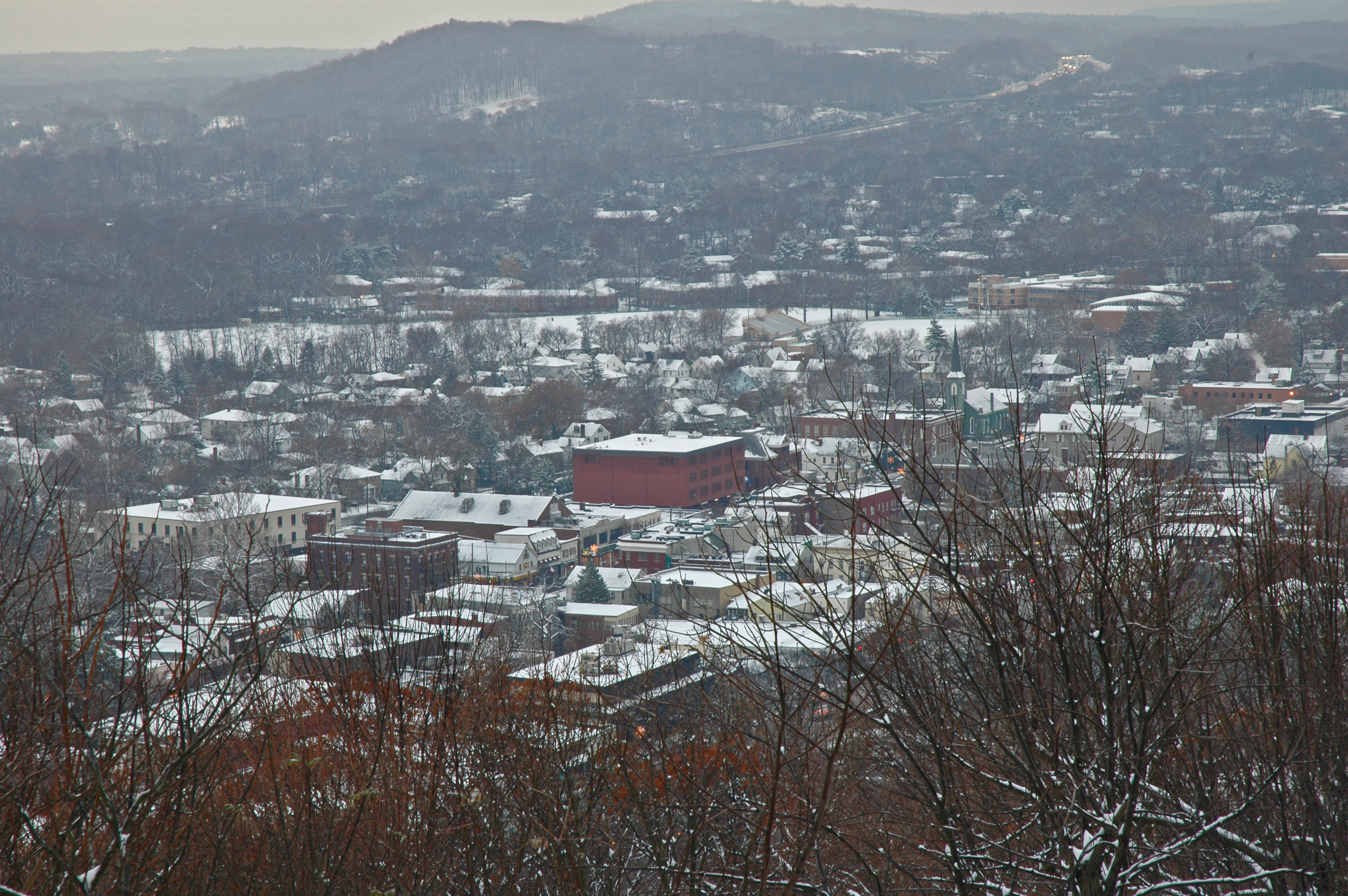 Photography by Leif Knutsen. Downtown Millburn, New Jersey, from South Mountain Reservation.